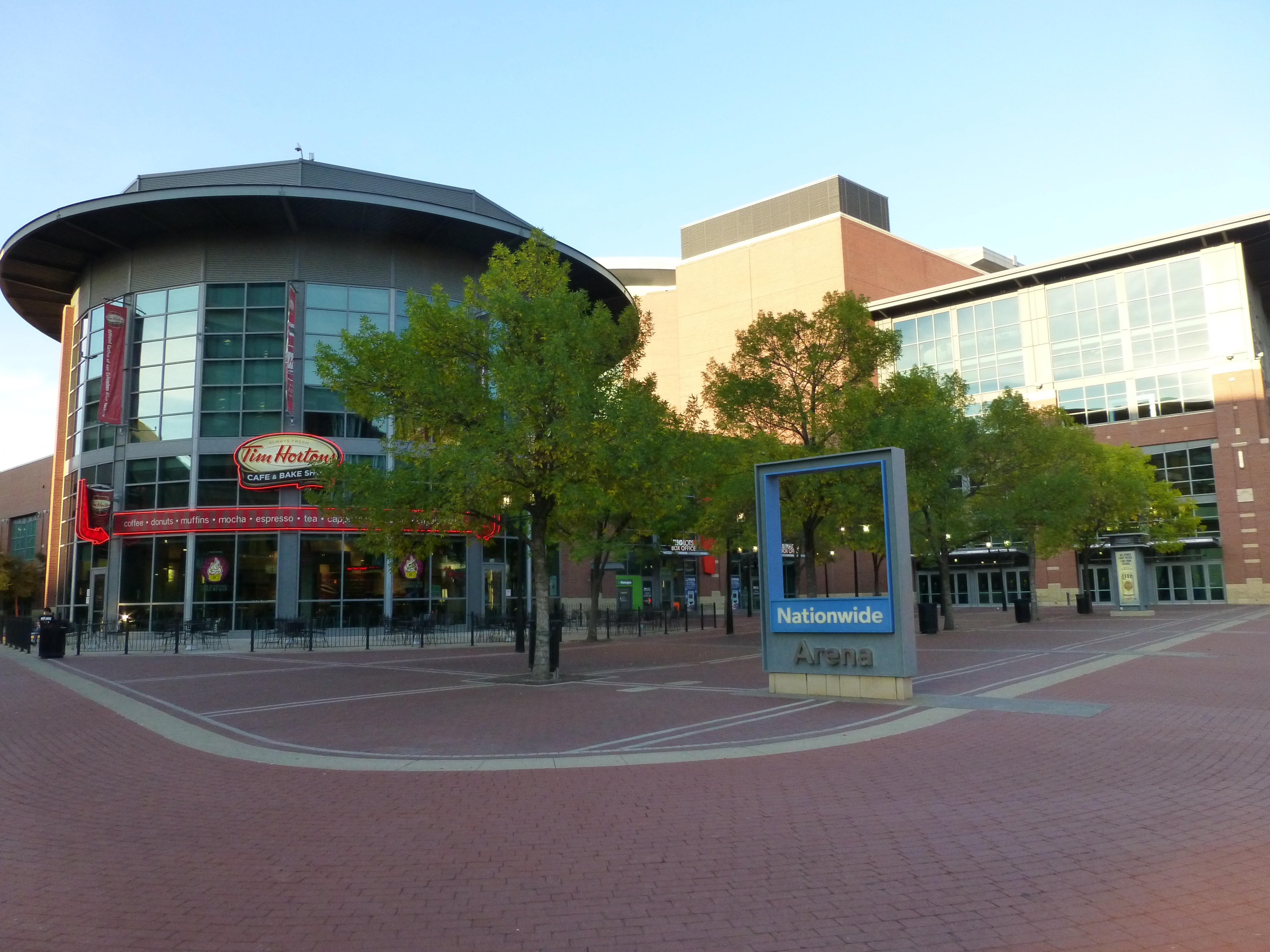 In Columbus, Ohio. Image may require further categorization.